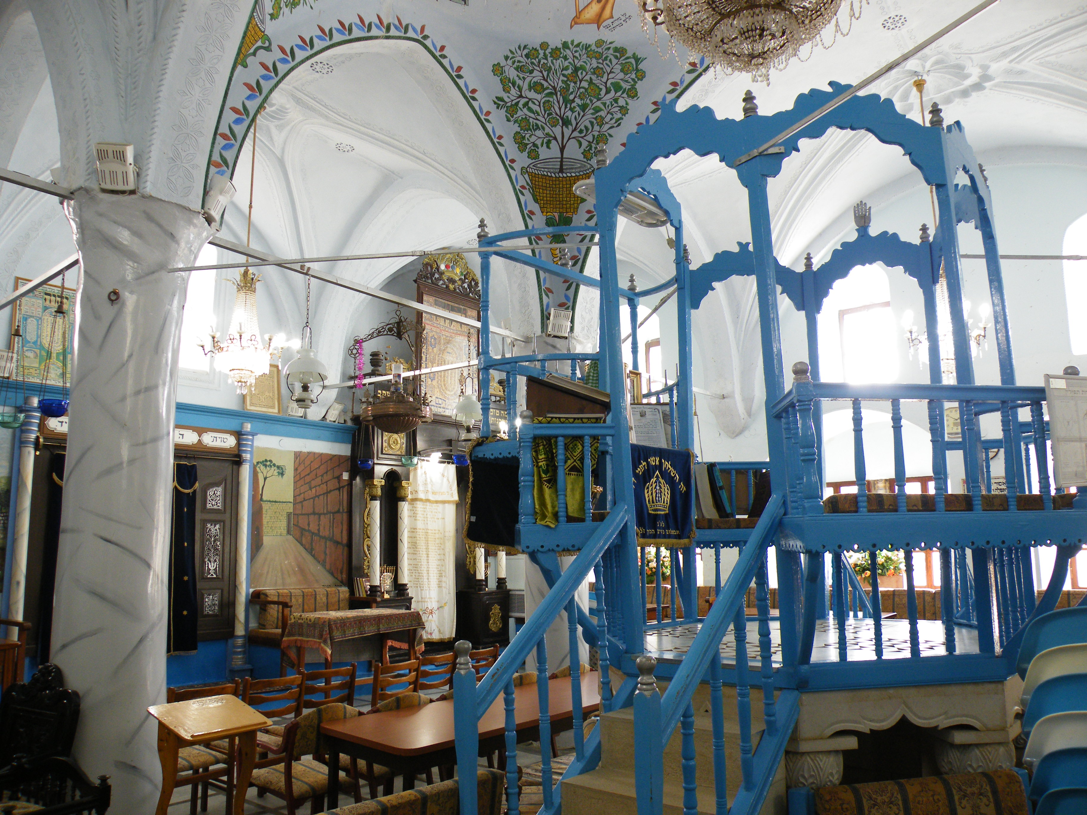 Bimah